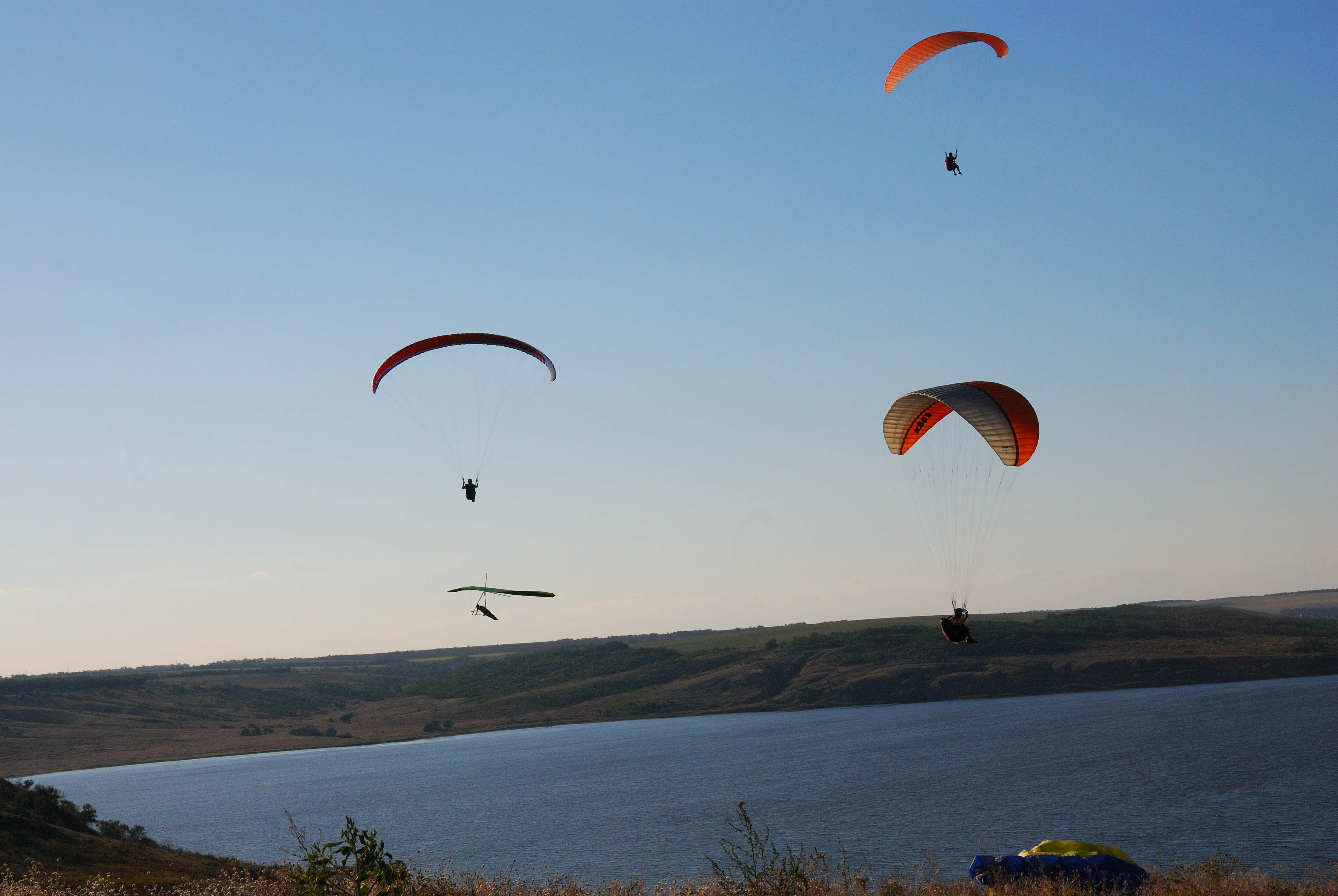 Odessa Paragliding Club in the Gulf of Kairy, Tiligul